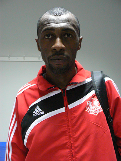 Hani Al-Dhabit posing for a picture in the changing room after the derby match against city rivals, Al-Nasr F.C. Dhofar won the match 2-1.